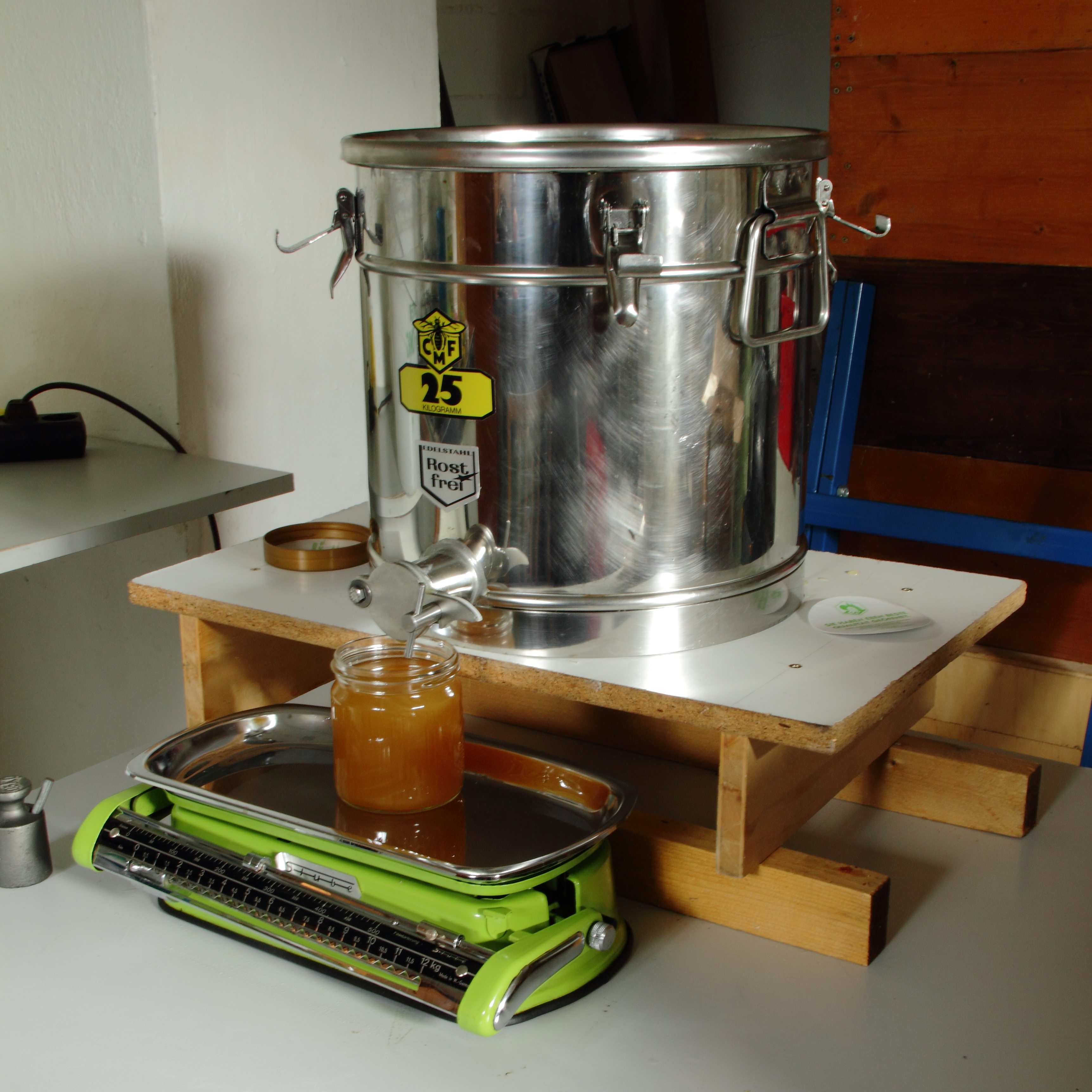 Fillup honey